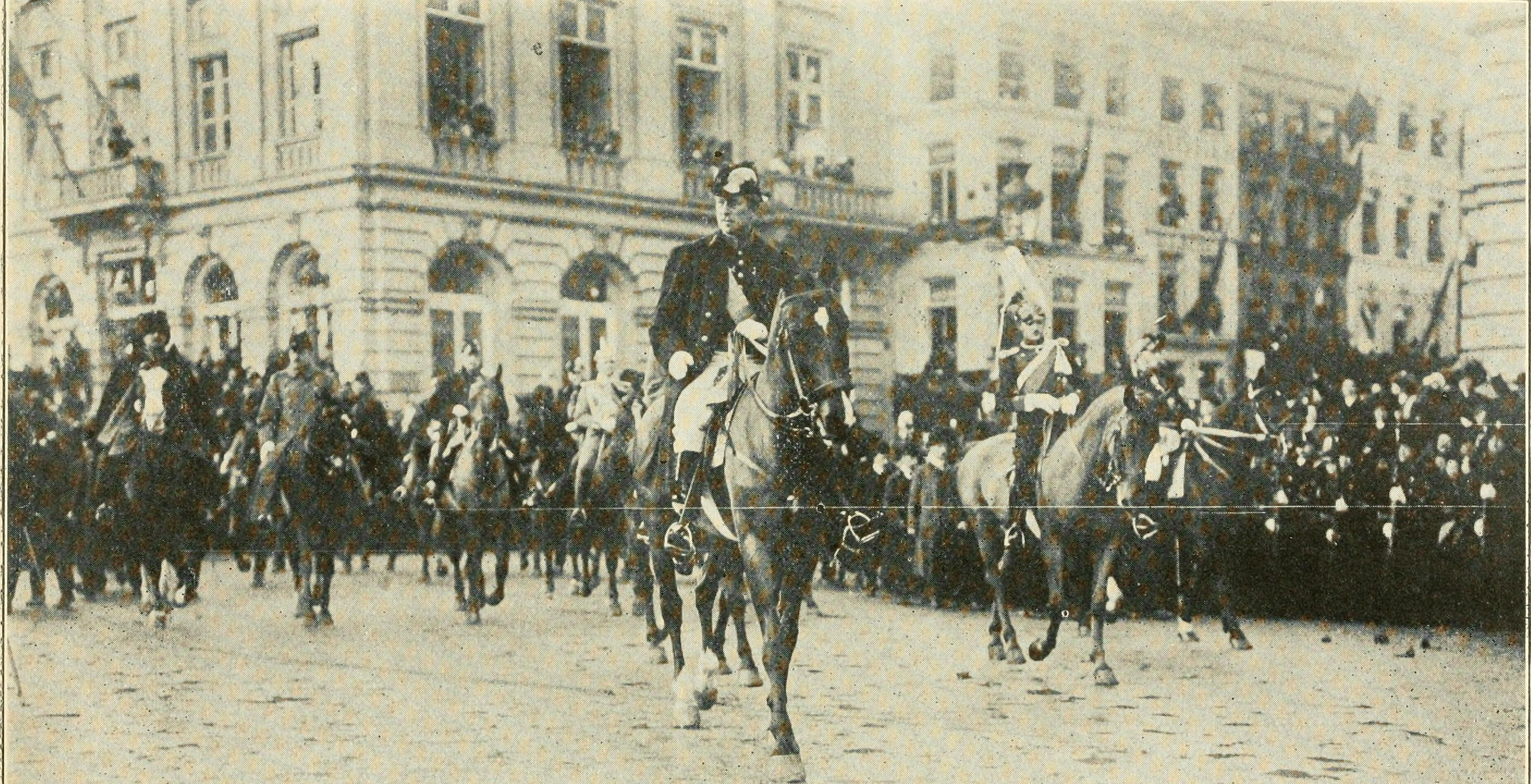 Title: One hundred years of conflict between the nations of Europe, the causes and issues of the great war; Year: 1914 (1910s) Authors: Morris, Charles, 1833-1922 Subjects: World War, 1914-1918 Publisher: (Philadelphia, Printed by G. F. Lasher & company Text Appearing Before Image: While the Slavs form the great bulk of the inhabitants ofeastern Europe, the Teutons, or people of Teutonic race andlanguage, are widely spread in the west and north, including theGerman-speaking people of Germany, Austria-Hungary and Switzer-land, the English-speaking people of the British Islands, the Scan-dinavian-speaking people of Norway and Sweden, the Flemish-speaking people of Belgium, and practically the whole people ofDenmark and Holland. Yet though these are racially relatedthere is no such feeling as a Pan-Teutonic sentiment, combiningthem into a racial unity. Instead of community and fraternity,a considerable degree of enmity and rivalry exists between theseveral peoples named, especially between the British and Germans.Pan-Germanism is not Pan-Teutonism in any proper sense, beingconfined to the several German countries of Europe, and especiallyto the combination of separate states which constitutes the presentGerman empire. It is the Teuton considered in this minor sense Text Appearing After Image: '